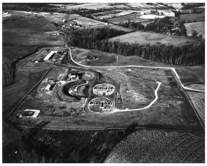 This small Nike Ajax site has only two launch areas, the oval shaped ares in the middle of the image. The rectangular elevators that raise the missiles from their underground storage areas can be seen, and the four launchers are the small squares on either side of the elevator. Just to the left of the launchers is the refuelling area, surrounded by a high berm in case one of the missiles exploded. Near the top of the frame, just left of center, is the administration area. Radars are not evident, so they are likely positioned in the area at the extreme upper left.